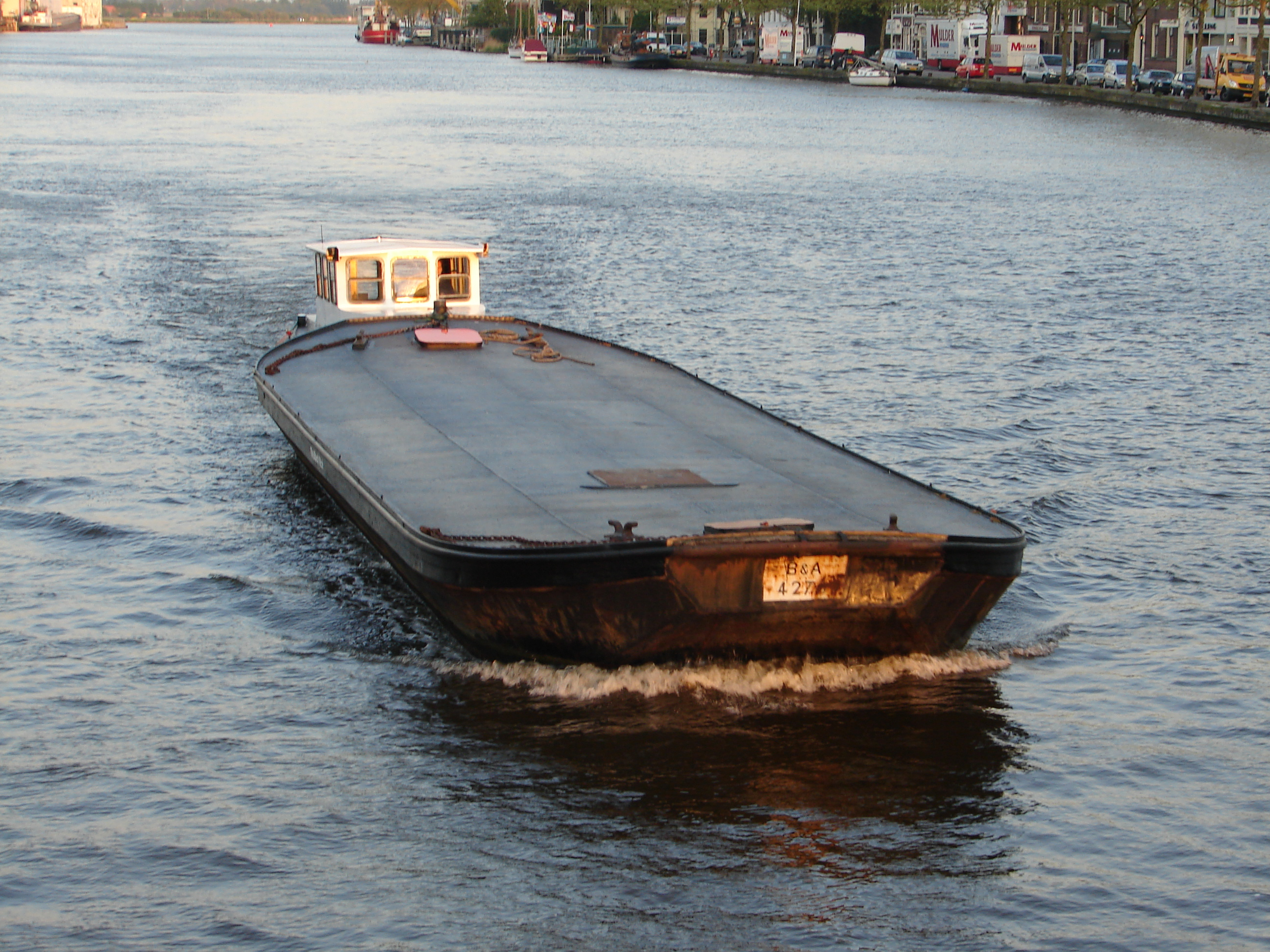 A flat barge